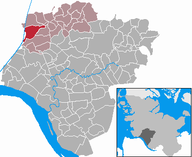 This map shows the area of the municipality Gribbohm in the Kreis (district) Steinburg, Schleswig-Holstein, Germany.